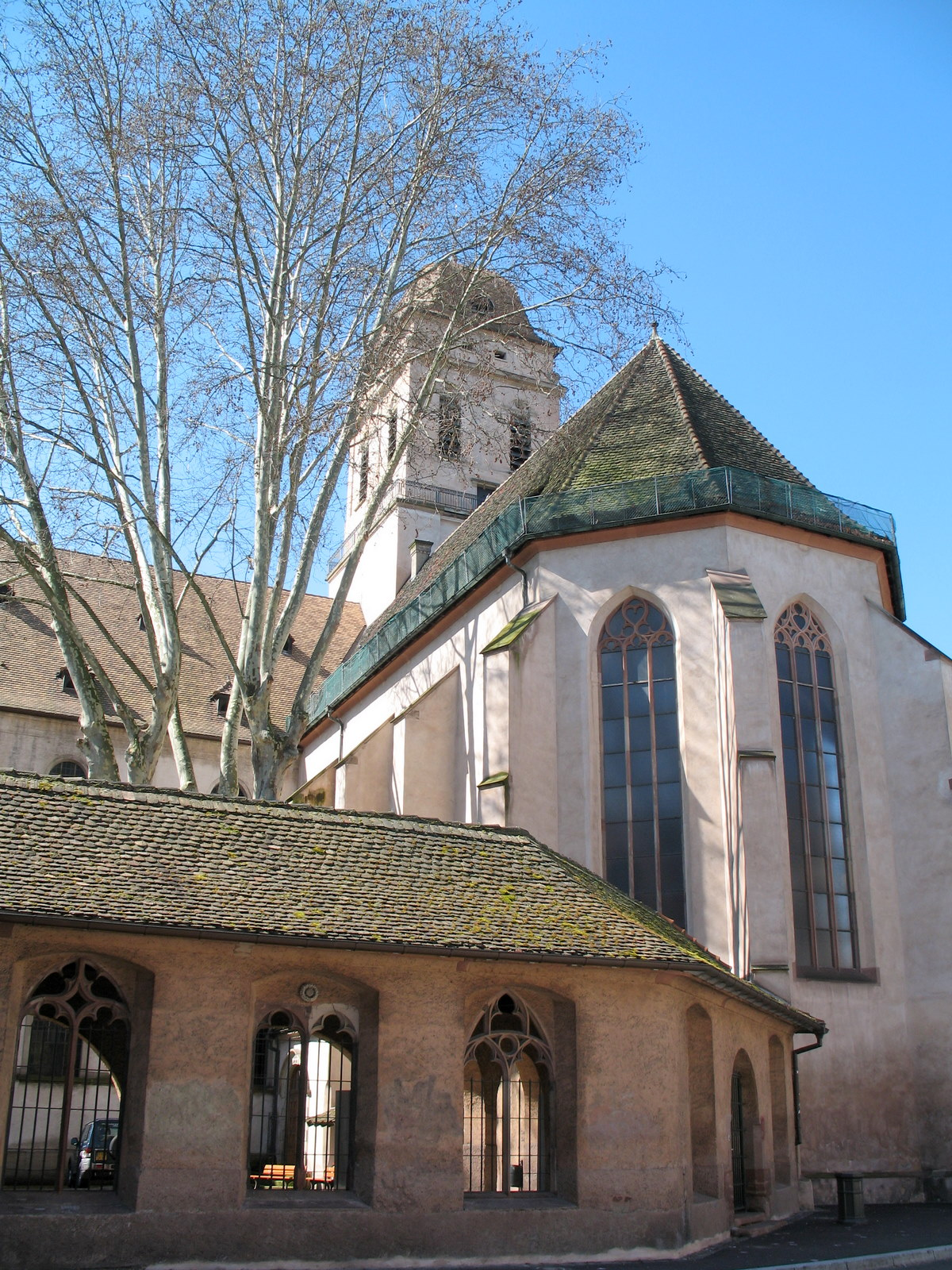 See where this picture was taken. ?